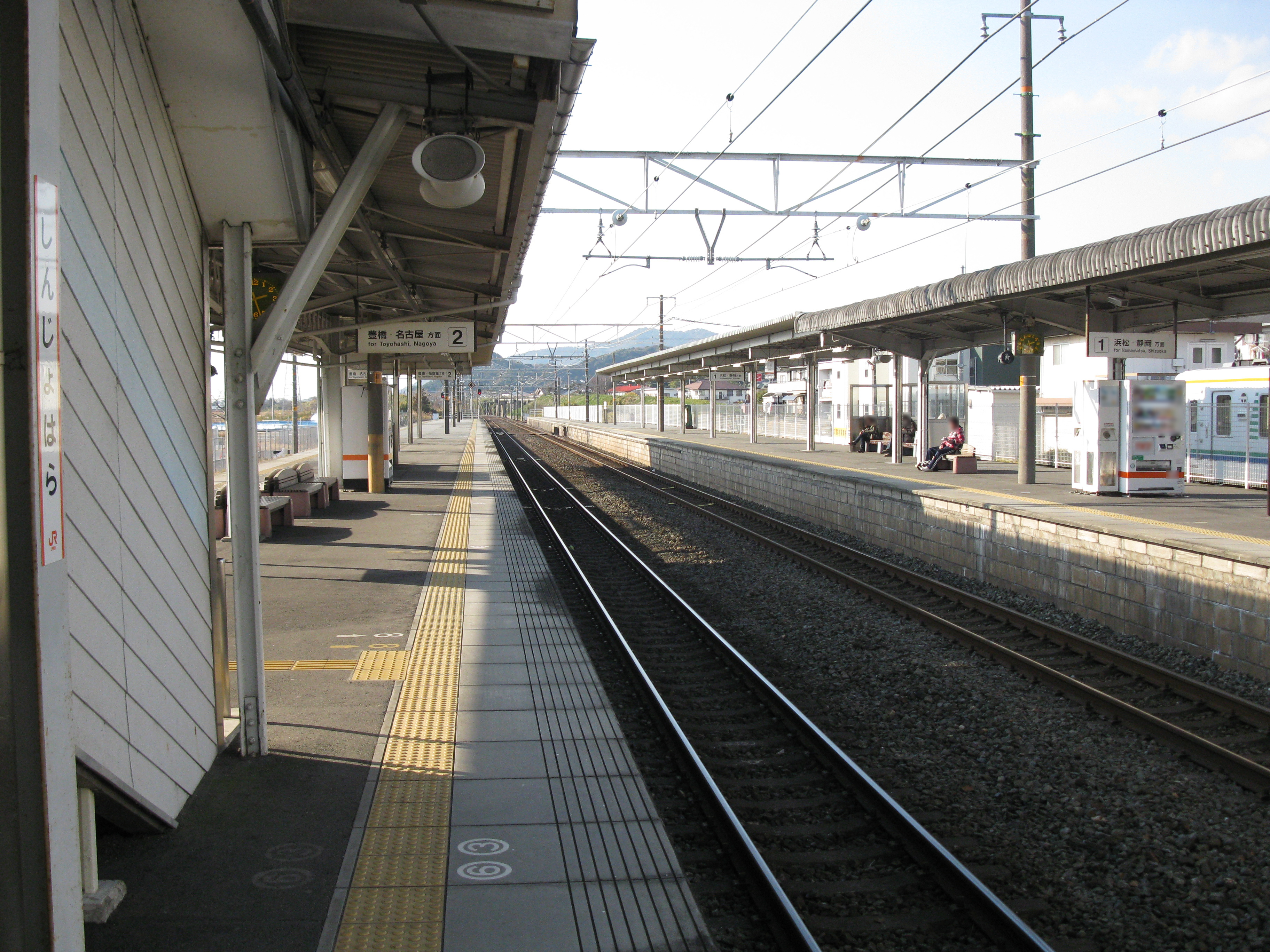 Shinjohara Station platform (Central Japan Railway(JR Central) Tōkaidō Main Line)